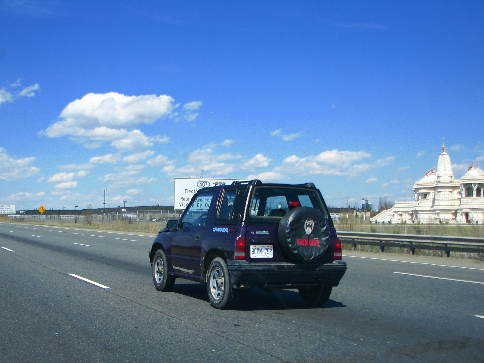 Chevrolet Tracker - Back Off!